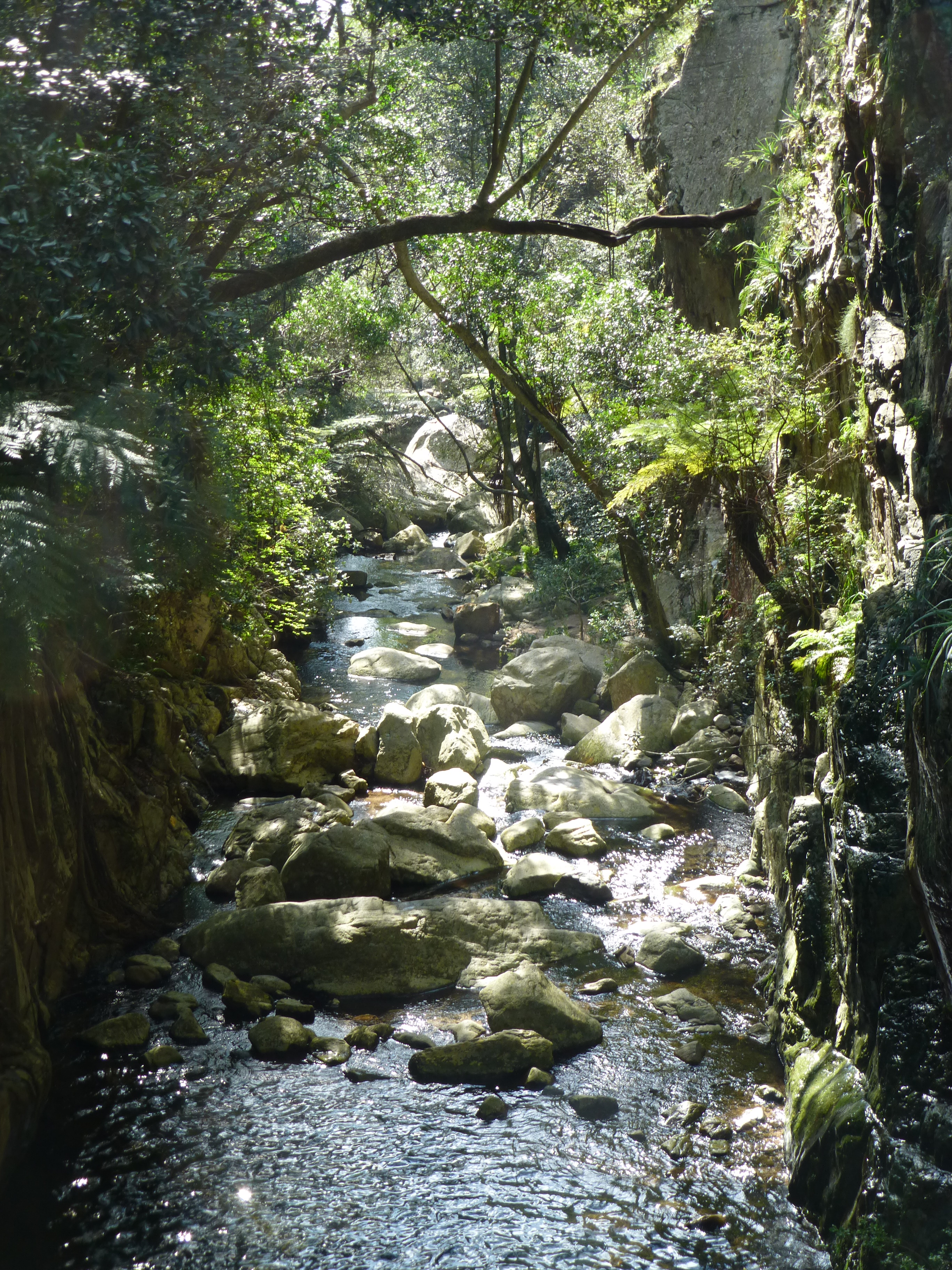 "Help-Help", Tonquani Kloof, Magaliesberg